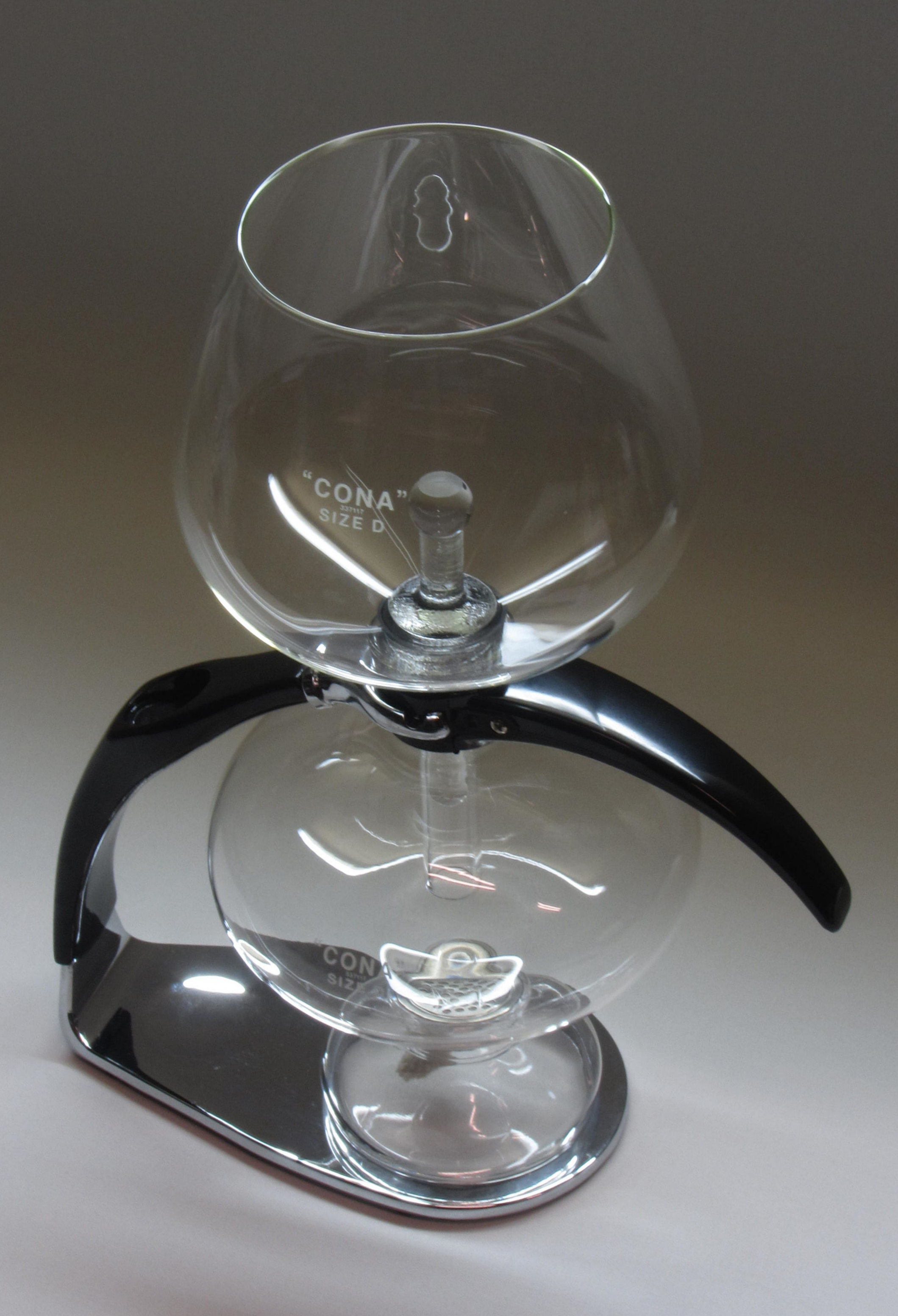 Industrial design-classic vacuum coffee maker of the "Cona" factory, designed by Abraham Games and produced since 1962 upto the present day. In 2017 the factory moved from England to the Netherlands. British Museum item number 1997,1202.1 / Museum Rotterdam item 90793-A-E